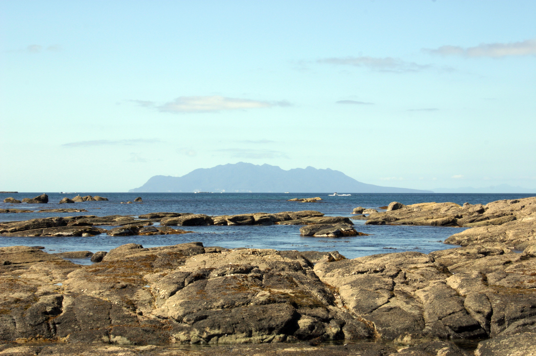 Little Barrier Island, viewed from Matheson Bay on the mainland.